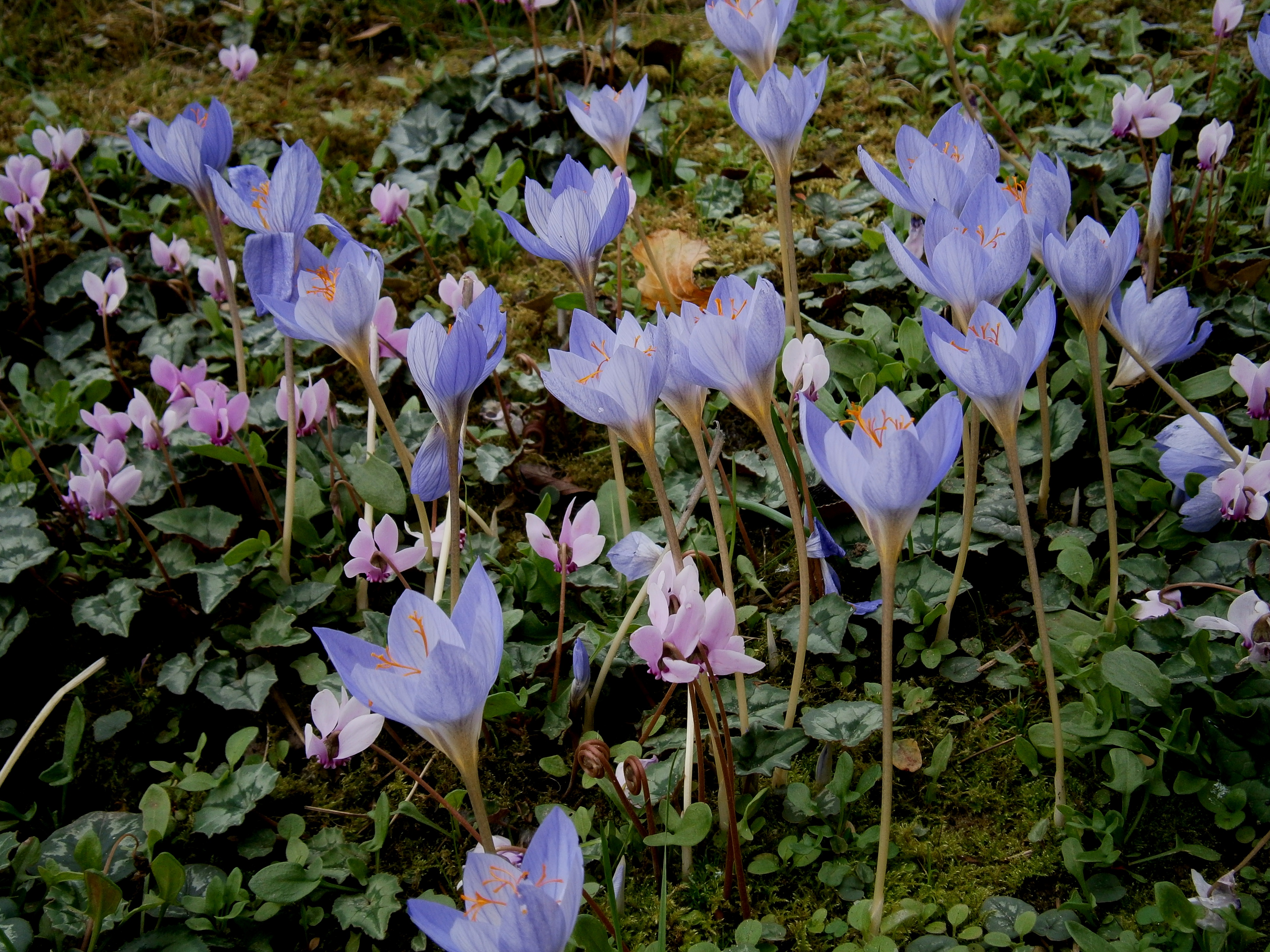 Crocus speciosus 'Artabir' with Cyclamen hederifolium